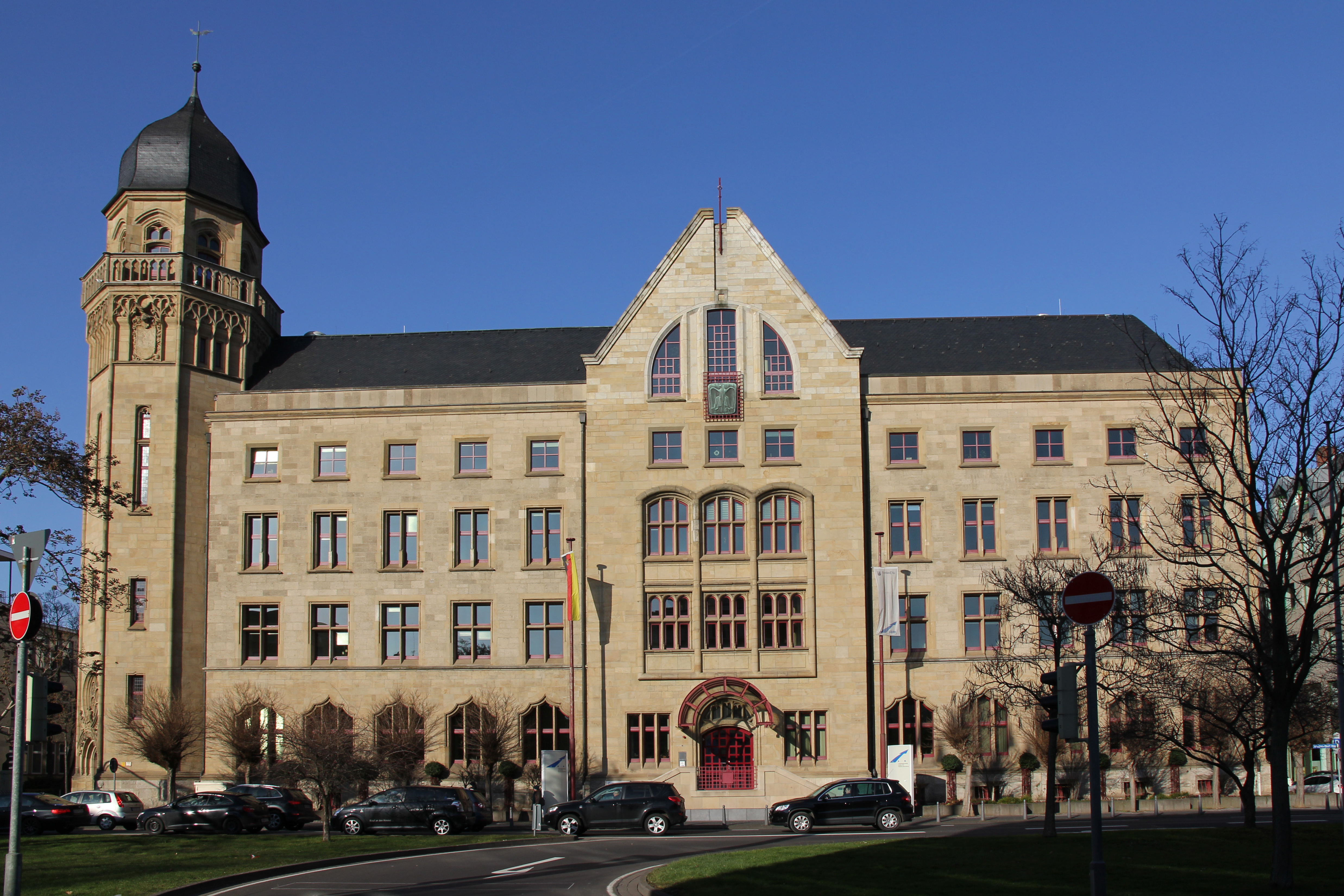 Former Imperial Post Office in Koblenz